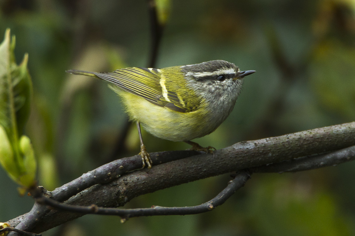 Ashy-throated Warbler - Bhutan_S4E8811